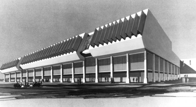 Sketch of the NASA Launch Control Center. The large shutters along the front of the upper floor could be closed quickly, in the event of an emergency.